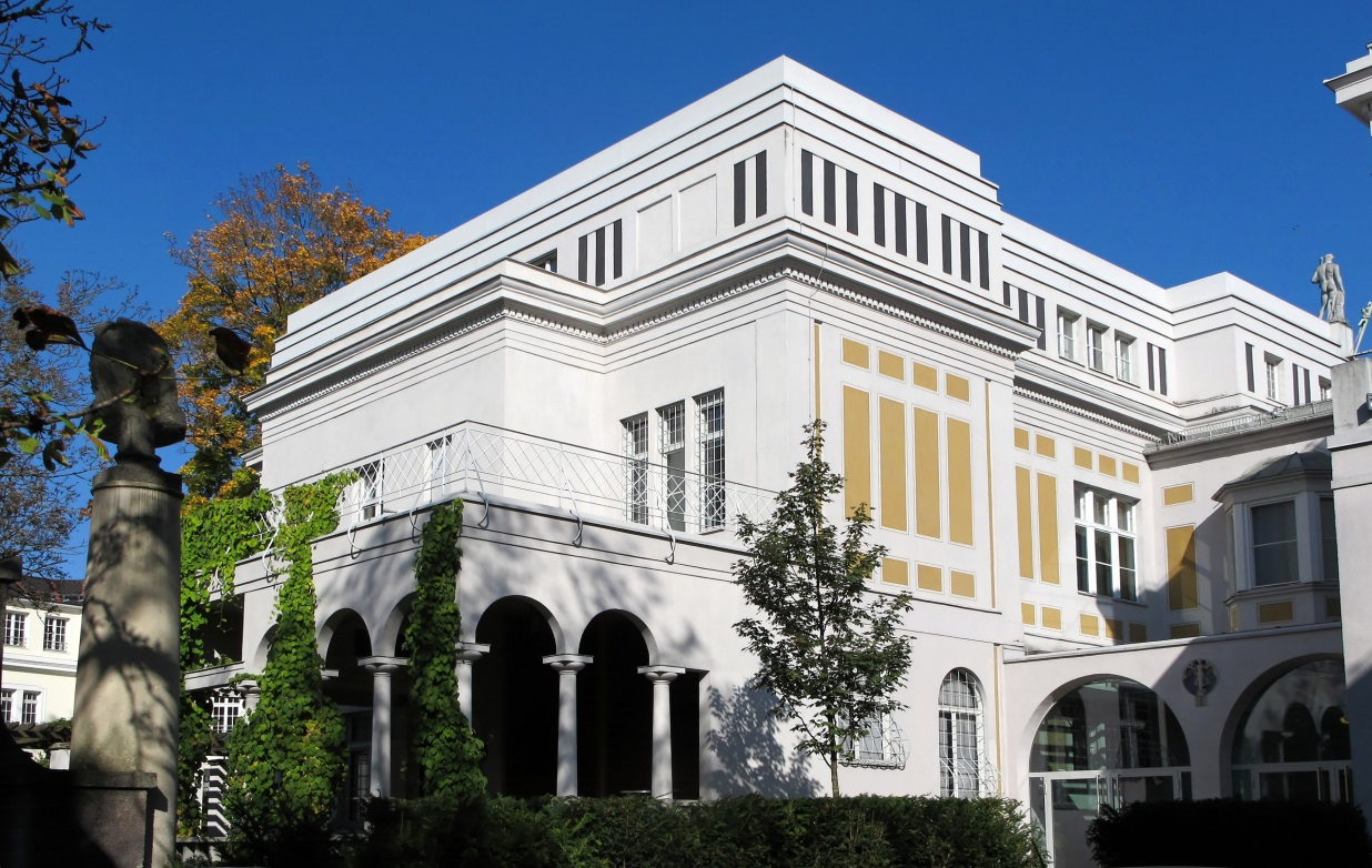 Munich, Museum "Villa Stuck"